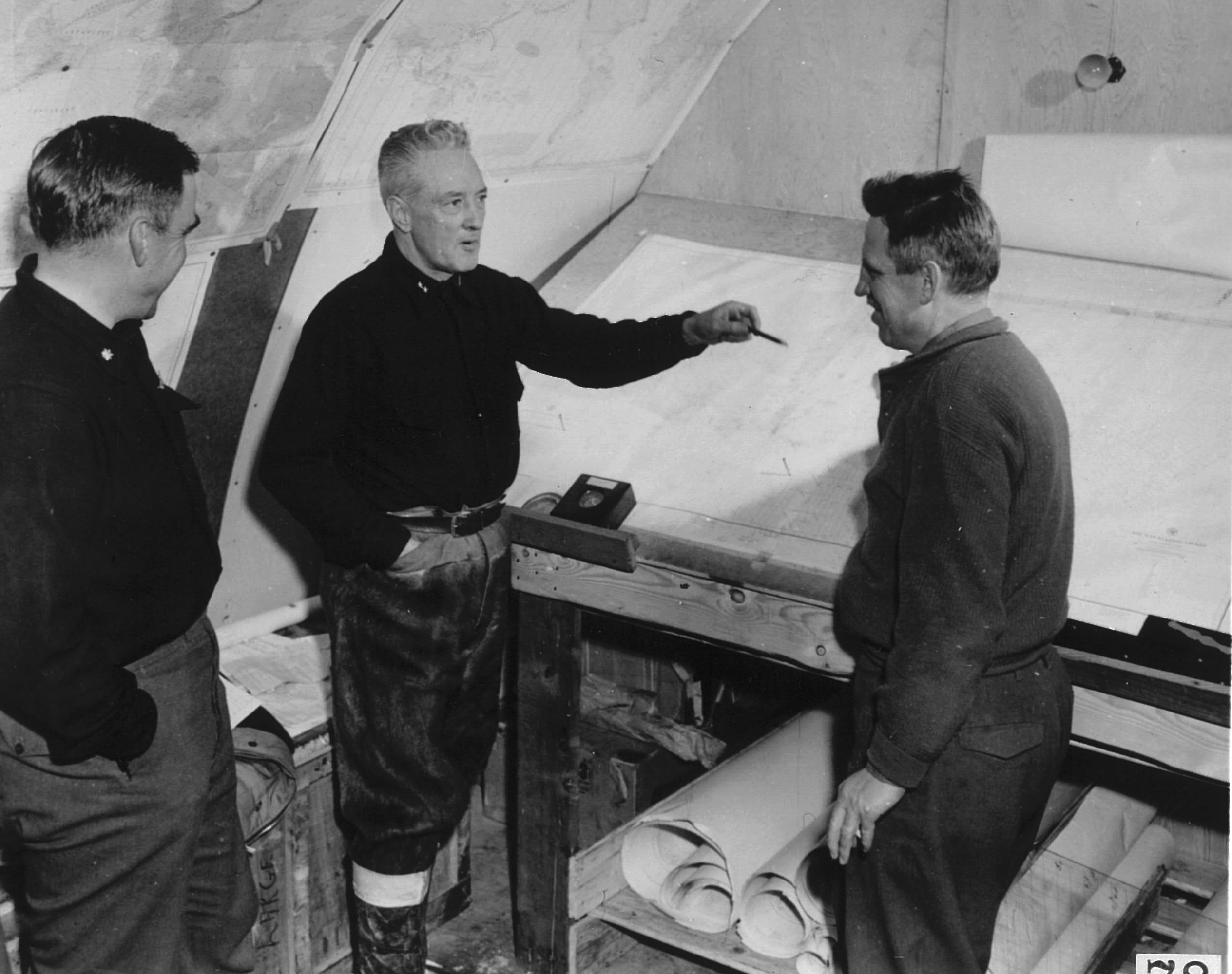 Rear Admiral Richard Byrd, center, explains a plan to fellow Operation Highjump members at their Little America IV camp.